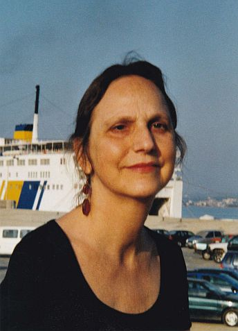 The German writer and painter Salean A. Maiwald